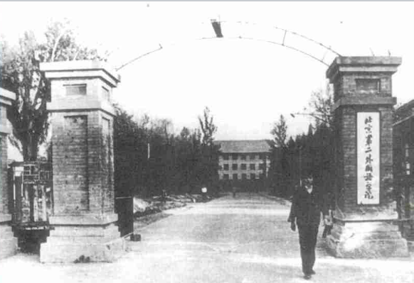 Beijing International Studies University North Entrance, 1960s. Taken by Cui Dexin.